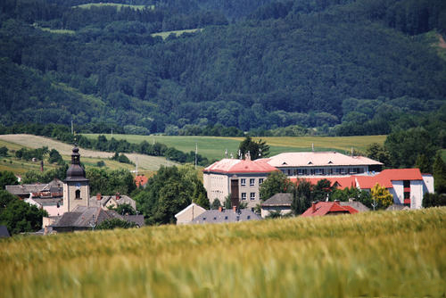 Bludov overview